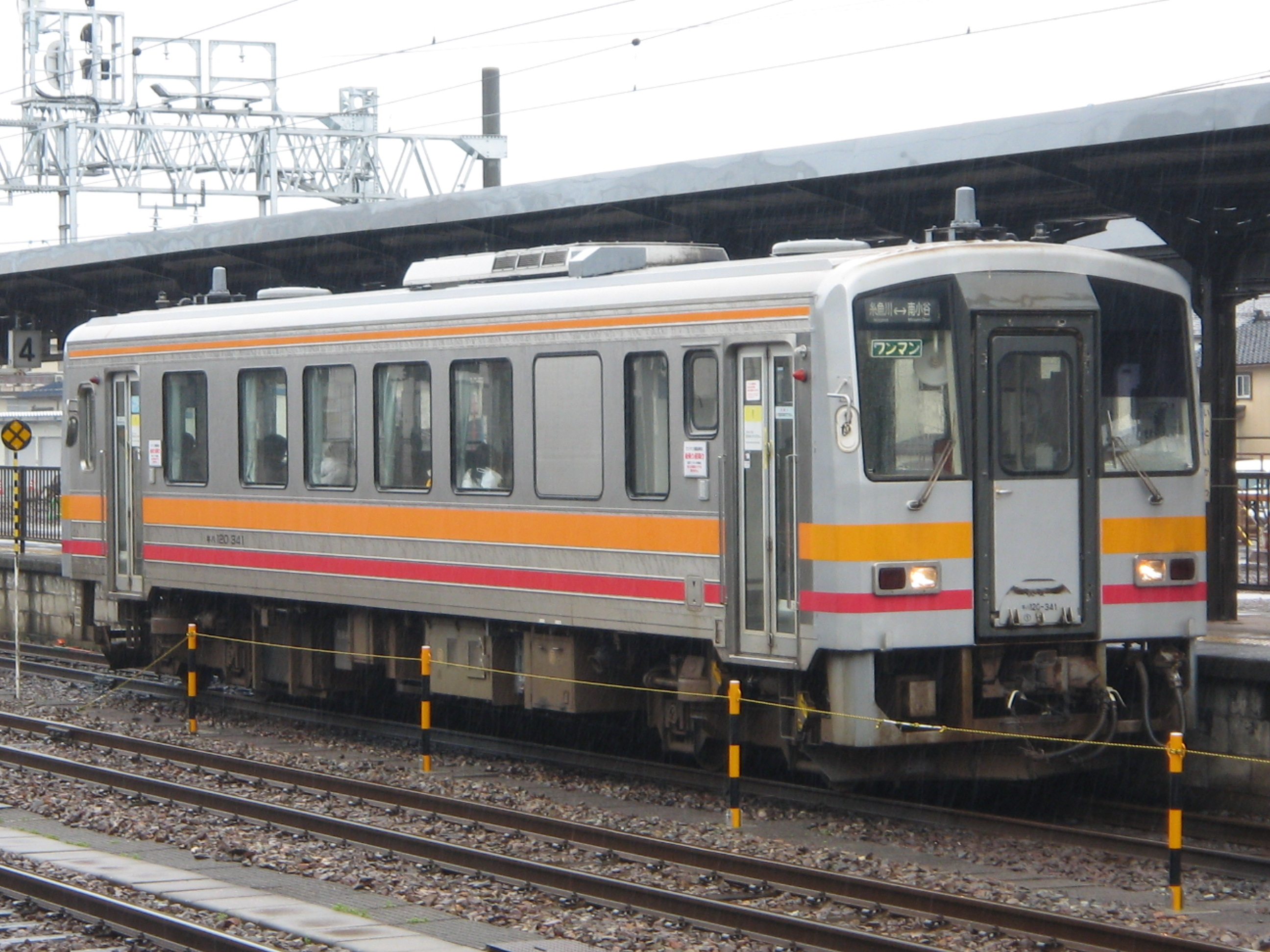 JR West Kiha 120 series DMU on Oito Line